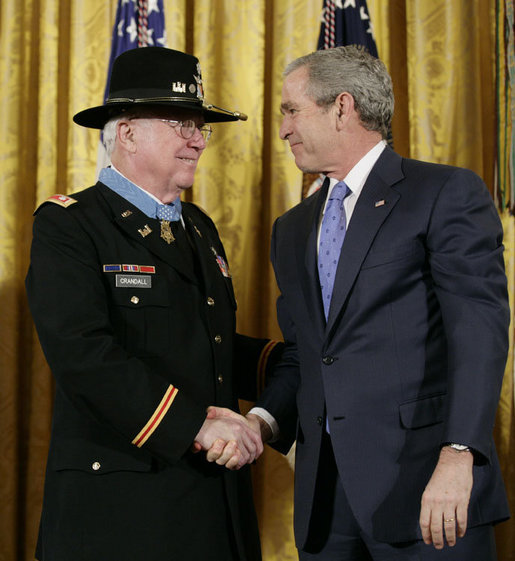 President George W. Bush shakes hands with U.S. Army Major Bruce P. Crandall after awarding Crandall the Medal of Honor in a ceremony in the East Room of the White House, Monday, Feb. 26, 2007, for his extraordinary heroism as a 1st Cavalry helicopter flight commander, completing 22 flights under intense enemy fire to aid troops in the Republic of Vietnam in November 1965. White House photo by Eric Draper